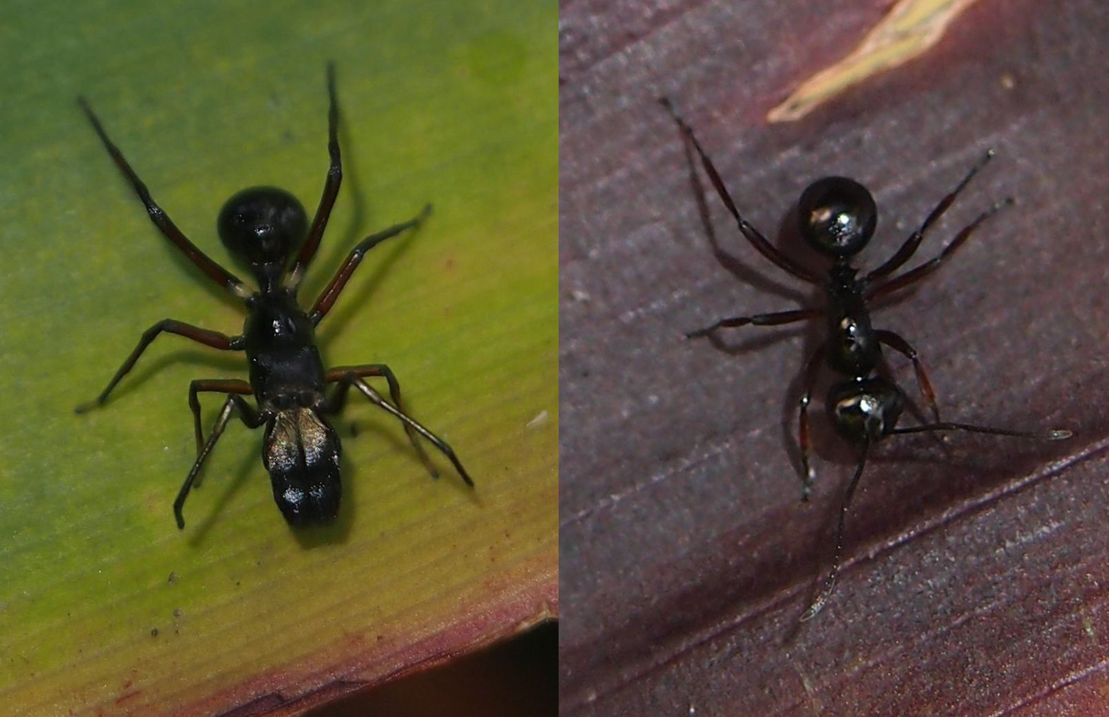 Ant Mimic Spider, Myrmarachne' sp. male (left) with a worker Rattle Ant Polyrhachis australis the ant species that the spider mimics